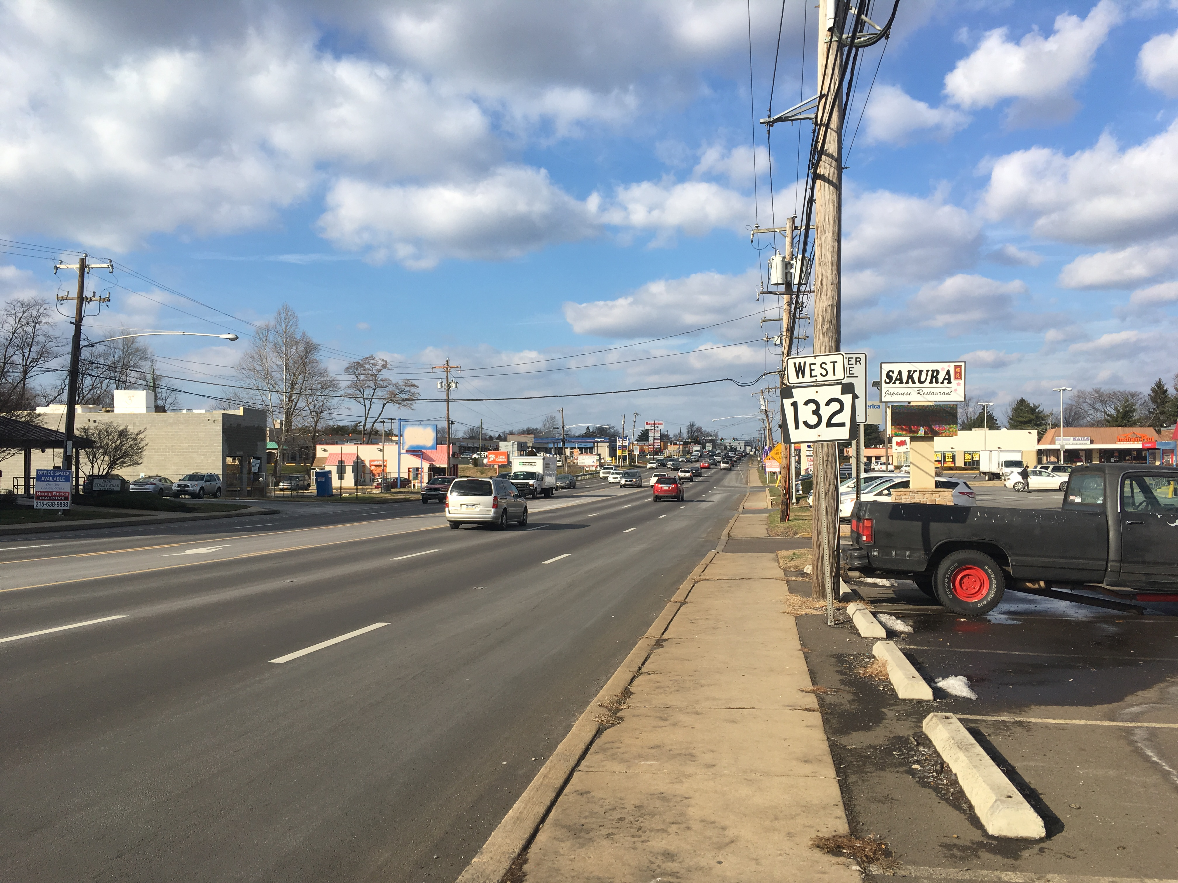 Westbound Pennsylvania Route 132 (Street Road) past the intersection with Pennsylvania Route 513 (Hulmeville Road) in Bensalem Township, Pennsylvania